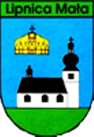 Herb Lipnica Mała